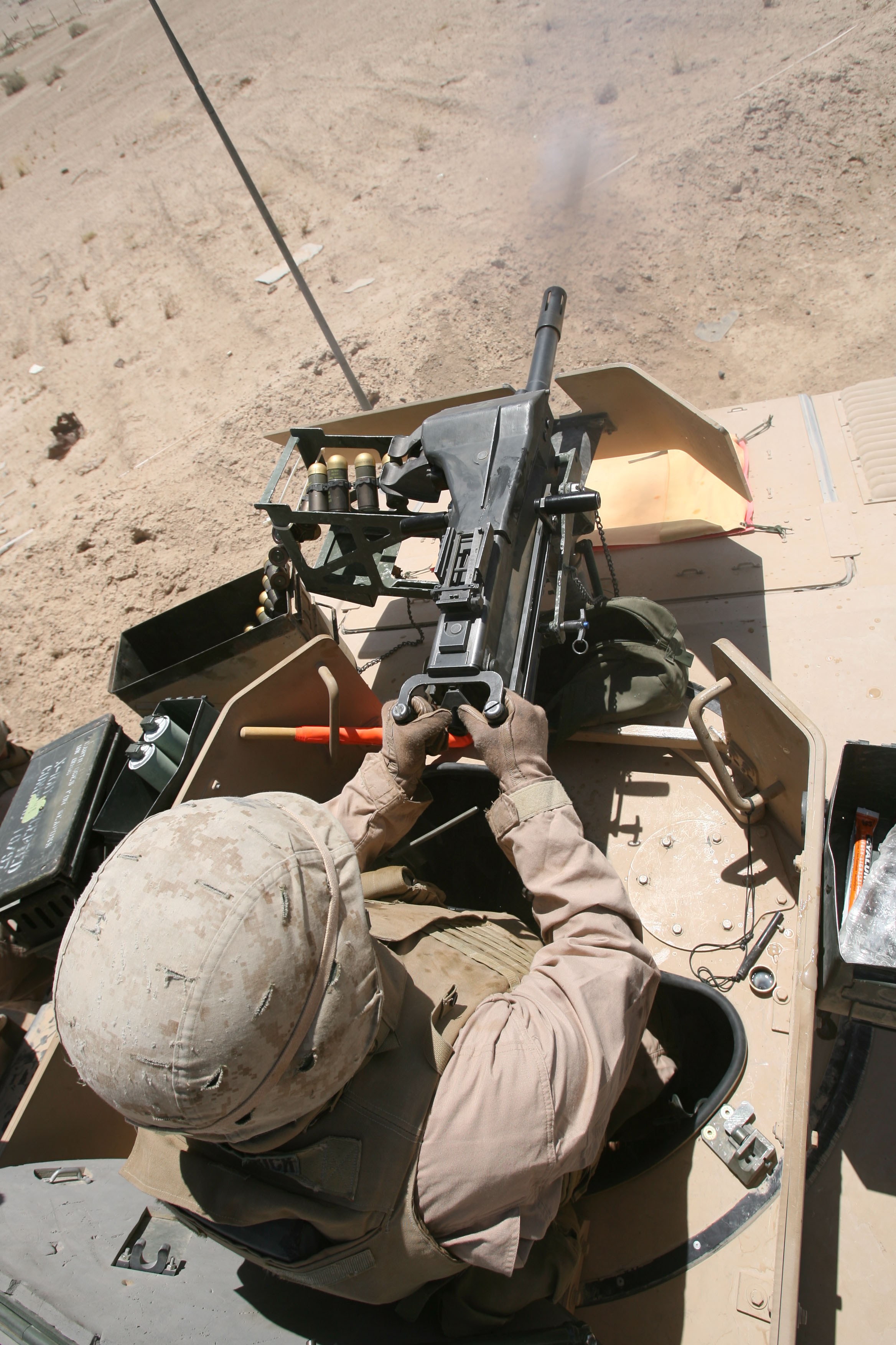 A 40 mm grenade flies from the muzzle of a MK-19 automatic grenade launcher at a range near Camp Fallujah, Iraq, June 13. Marines from Headquarters Company, Regimental Combat Team 5 spent time on the range honing skills with their mounted automatic weapons. Photo by: Gunnery Sgt. Mark Oliva Photo ID: 2006616556 Submitting Unit: 1st Marine Division Photo Date:06/13/2006